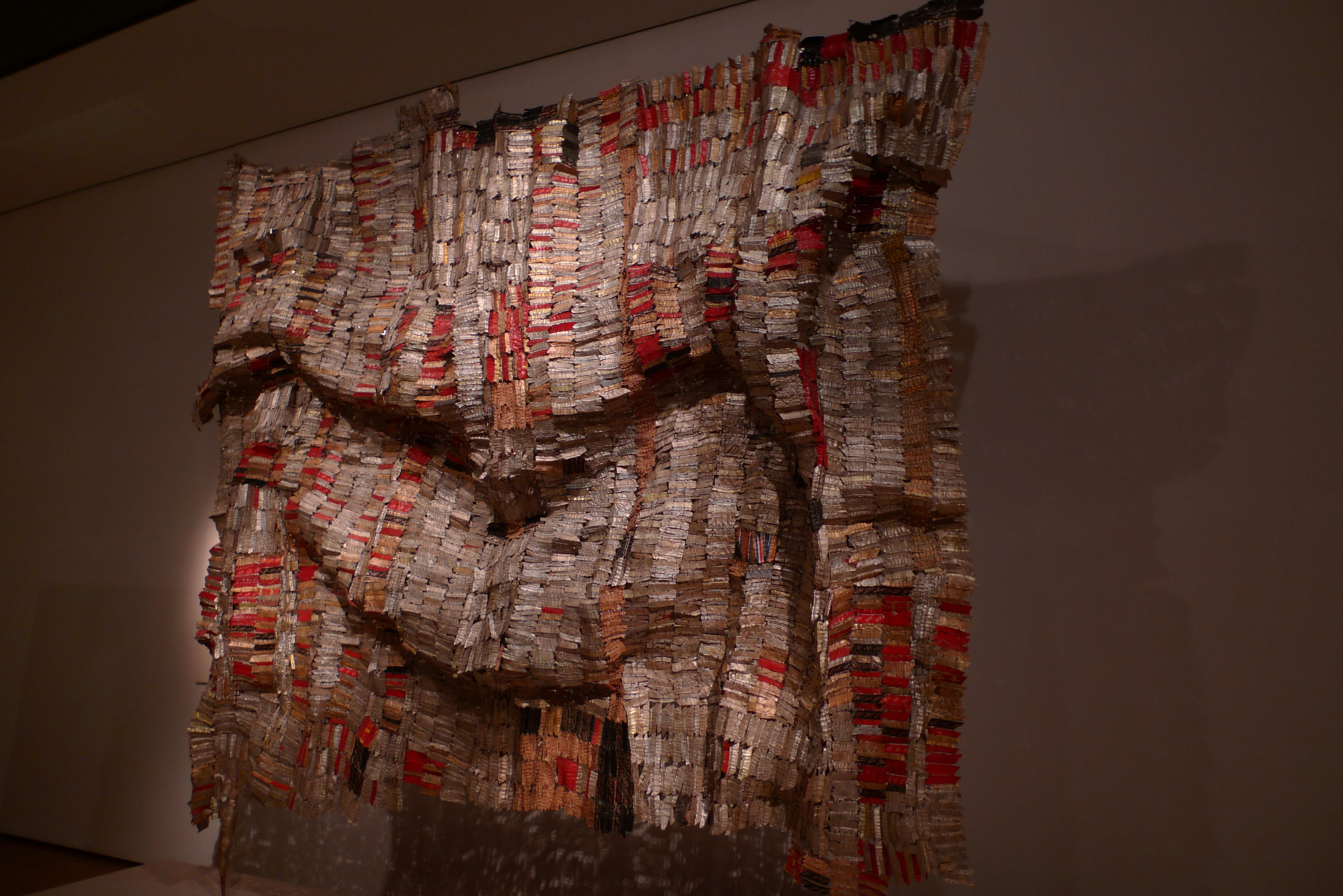 This artwork is a modern interpretation of kente cloth from the artist's native Ghana. It is made up of hundreds of metal bottleneck wrappers, stitched together with copper wire. A close up can be seen at File:El Anatsui - Man's Cloth (close up).jpg. On public display at The British Museum, Department of Africa, Oceania and the Americas.